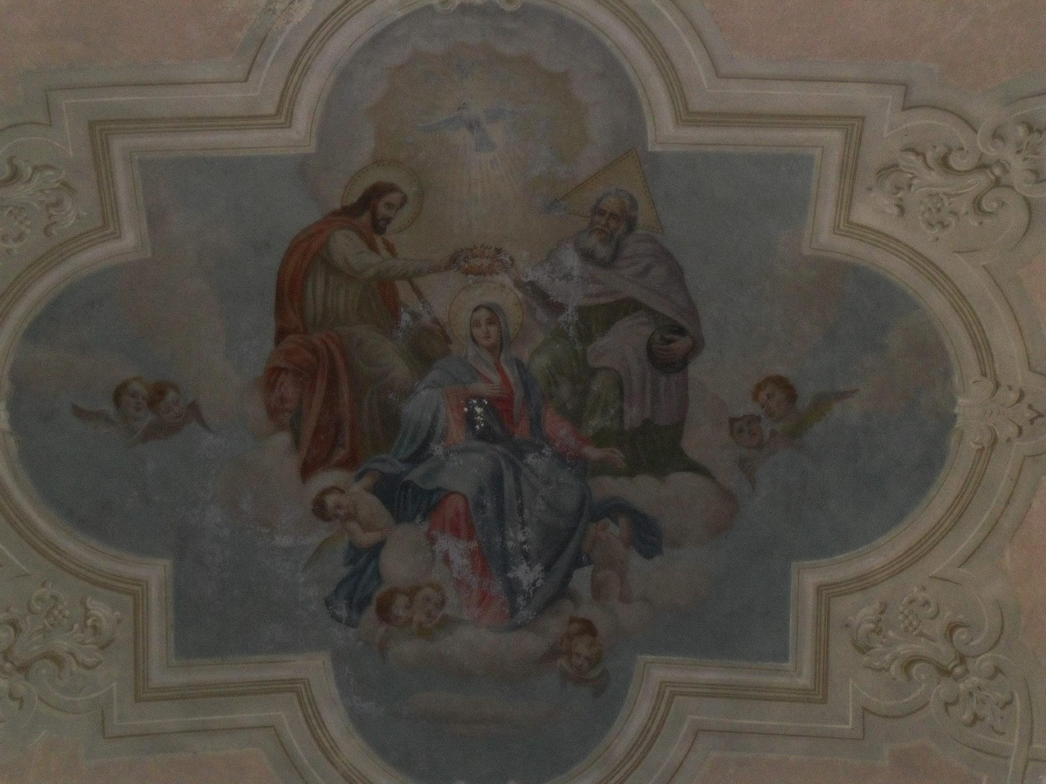 The Trinity (Prekmurščina: Svéto Trojstvo) mural in the Istvánfalvian Church